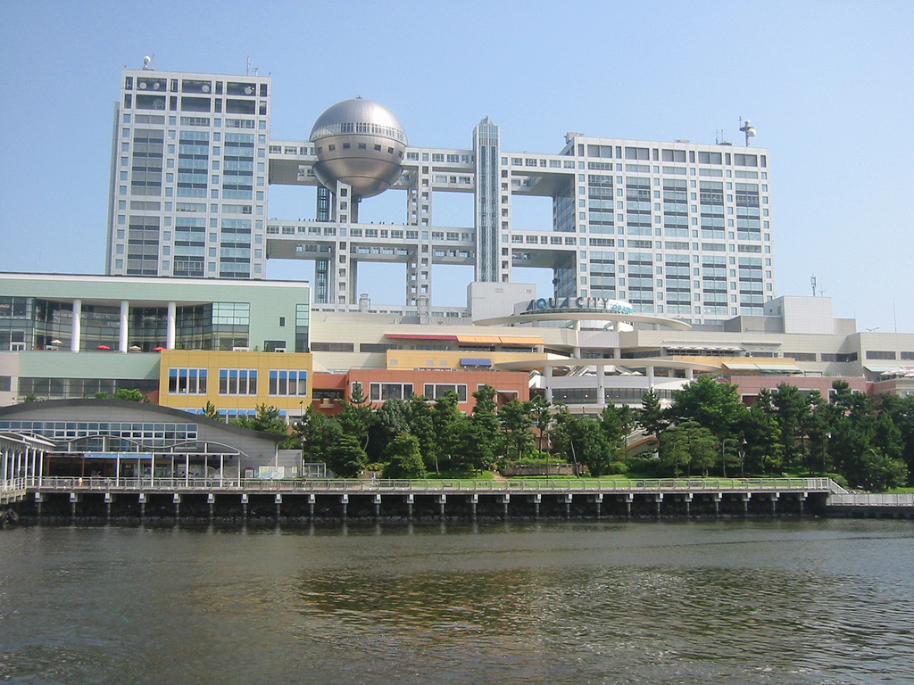 Photo of the Fuji Television HQ Building in the Odaiba area of Tokyo, taken from the river